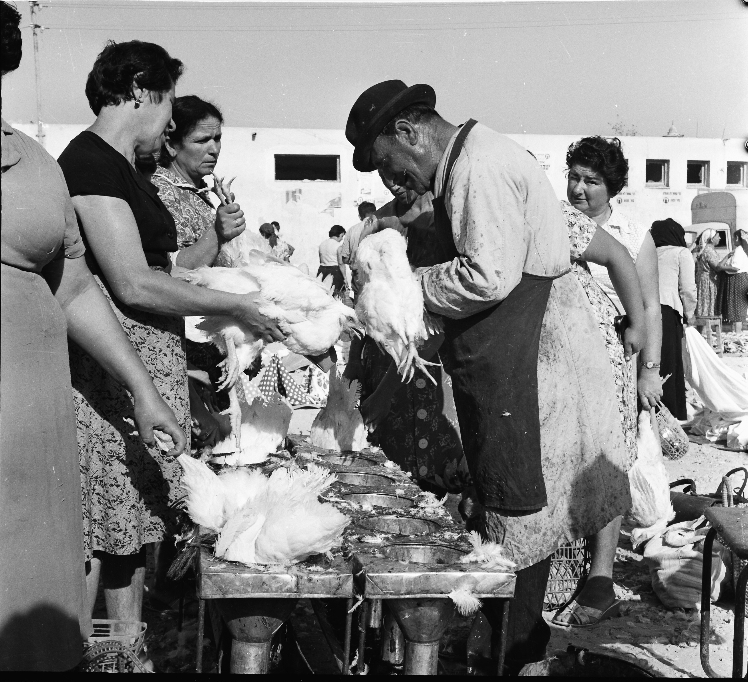 Religion in Israel